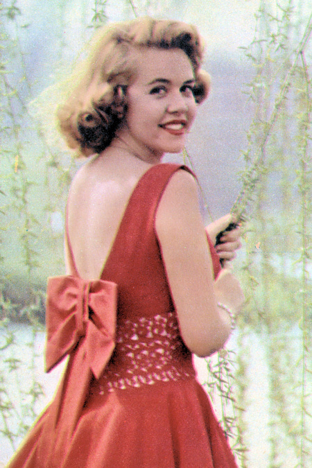 Portrait of Marti Barris